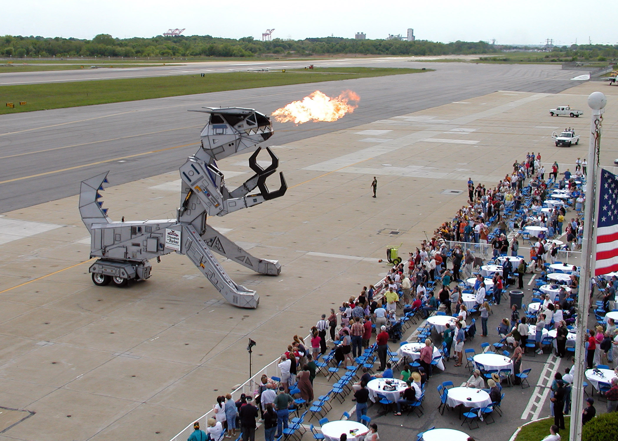 Naval Station Norfolk, VA (Apr. 27, 2002) -- "Robosaurus" thrills spectators at the 49th annual International Azalea Festival Air Show. The air show is held yearly aboard Naval Station Norfolk. U.S. Navy photo by Gunner’s Mate 1st Class Tom Lowney. (RELEASED)